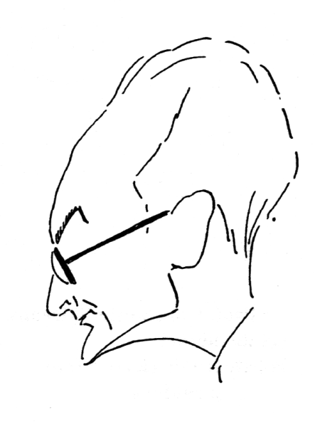 Self-portrait of Gheorghe Manu (1903-1961), Romanian physicist